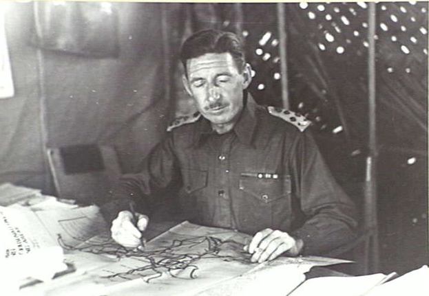 Portrait of Brigadier (later Major General) Heathcote Howard Hammer, commander of the Australian 15th Brigade at Siar, New Guinea in June 1944.